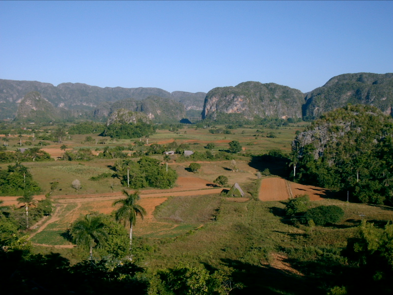 Viñales Valley in nowember 2004. Province of Pinar del Río, Cuba. Photo by User:Friman